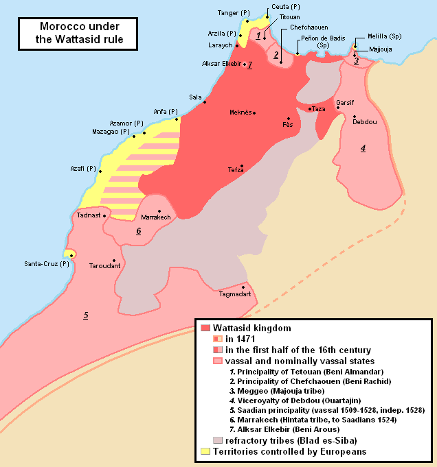 Simplified map of Morocco in the first half of the 15th century (Wattasid era). For the more detailed map, see File:Wattasid Morocco EN.PNG